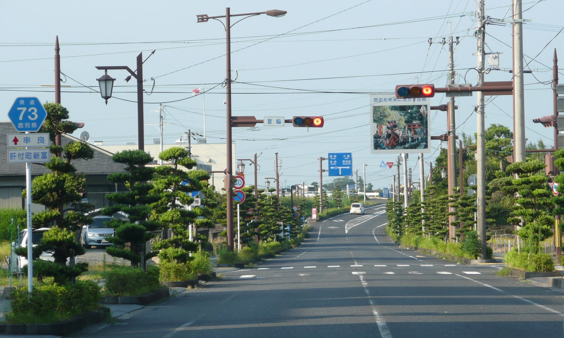 Kagoshima Prefectural Road 73 (Niitomi, Kimotsuki Town, Kagoshima, Japan)